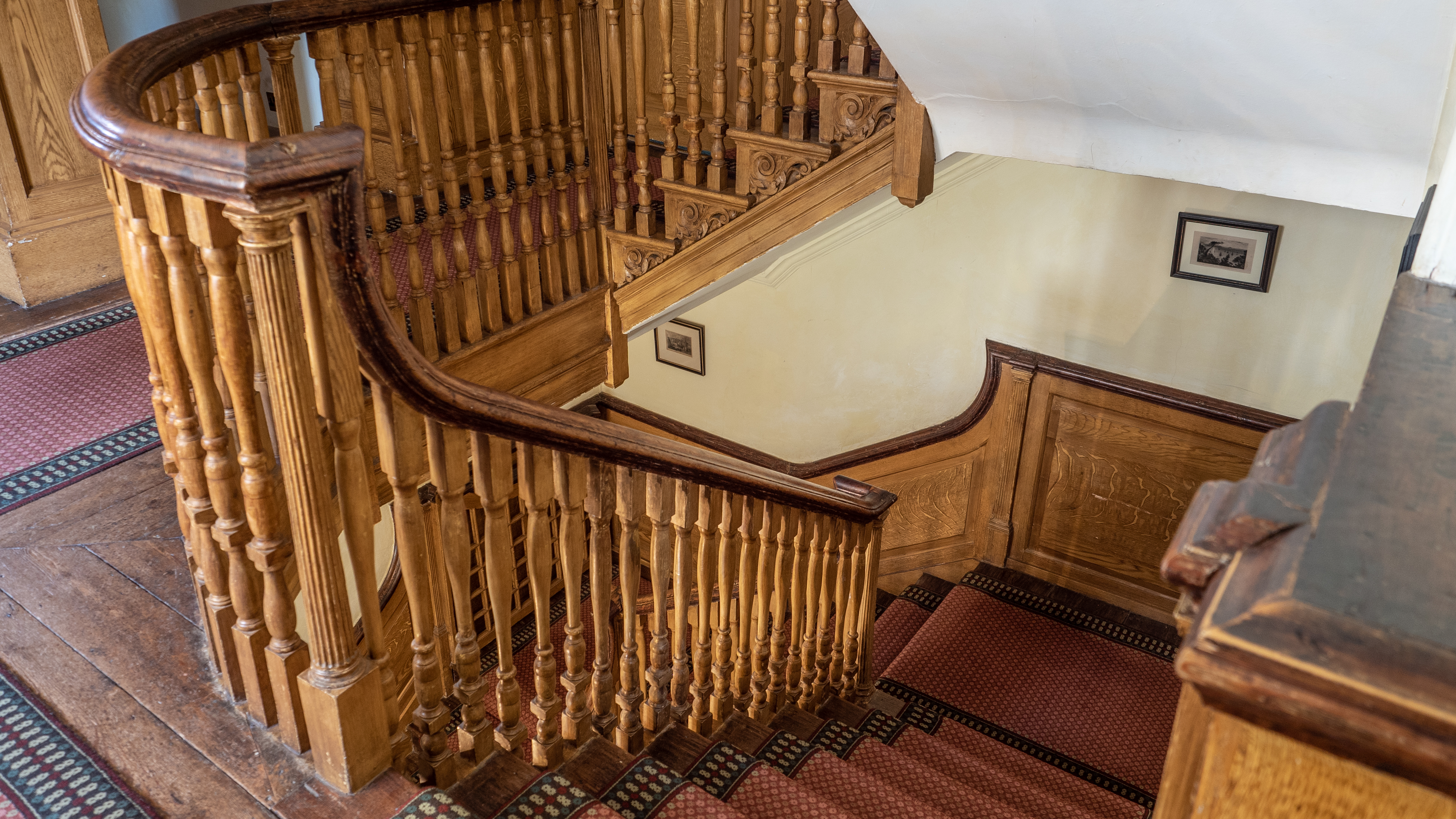 Buckland Abbey in Buckland Monarchorum, Devon, close to Plymouth (staircase)